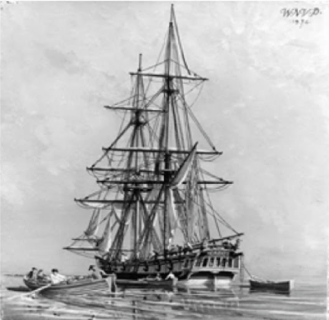 USS Cabot (1775)